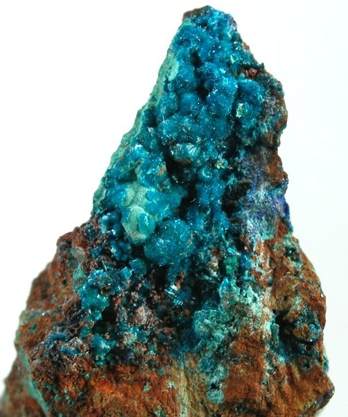 Serpierite Locality: Serpieri Mine, Kamariza Mines (Kamareza Mines), Agios Konstantinos [St Constantine] (Kamariza), Lavrion District Mines, Lavrion (Laurion; Laurium) District, Attikí (Attica; Attika) Prefecture, Greece (Locality at ) Size: 4.8 x 1.6 x 1.4 cm. Serpierite is relatively uncommon hydrated calcium, copper, zinc sulfate and this very fine and rich specimen is from the Type Locality - the Serpieri Mine at Laurium, Greece. Beautiful, turquoise-blue, radial clusters of sparkly serpierite micro-needles richly cover the matrix, which also includes sprays of primary malachite needles. Excellent material from this ancient locale, which was old at the time of the Classical Greeks.